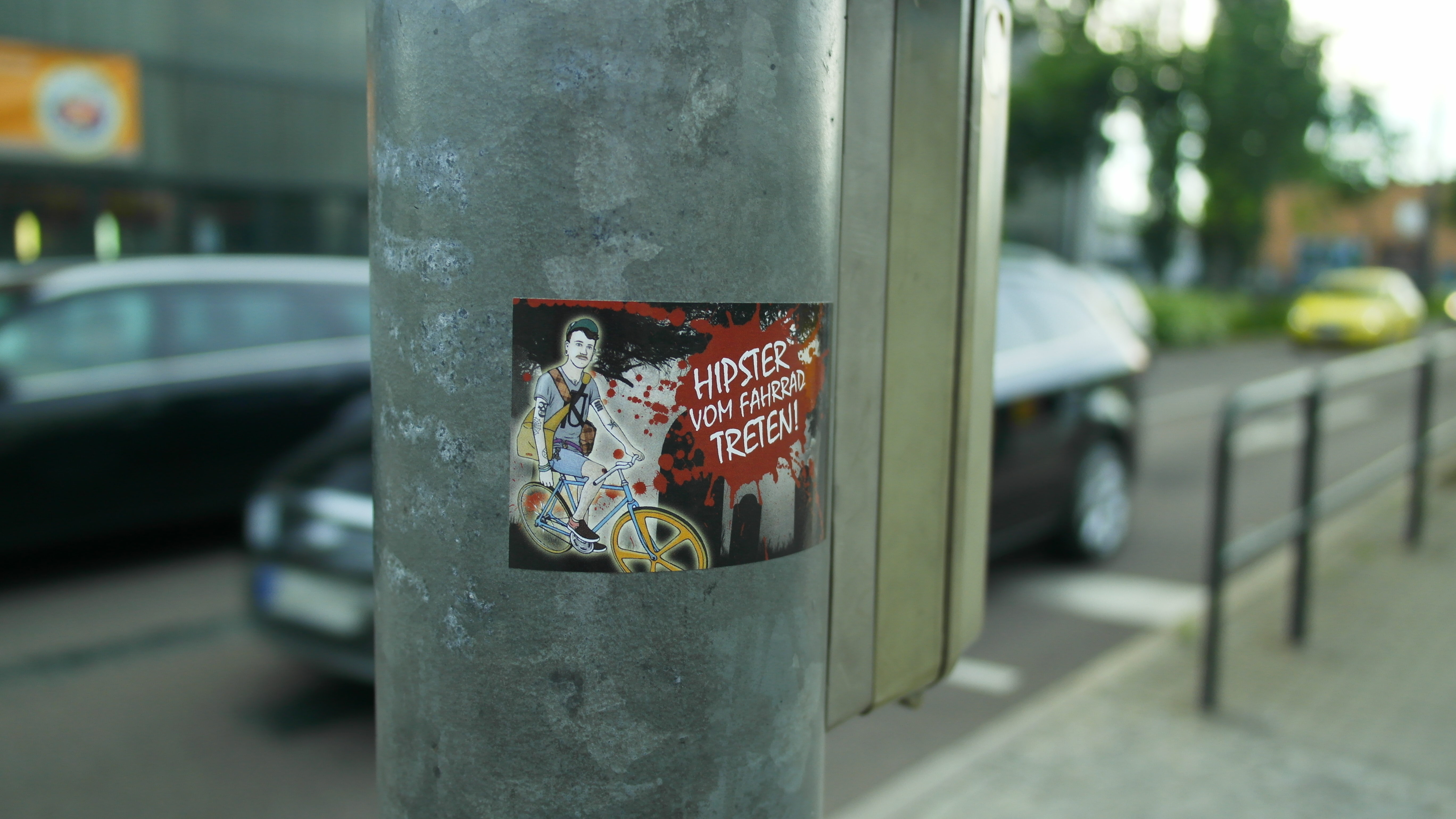 At the Bus and Tram Station "Gret - Palucca Straße" in Dresden (Germany) you could find a sticker which does show the German slogan translated into